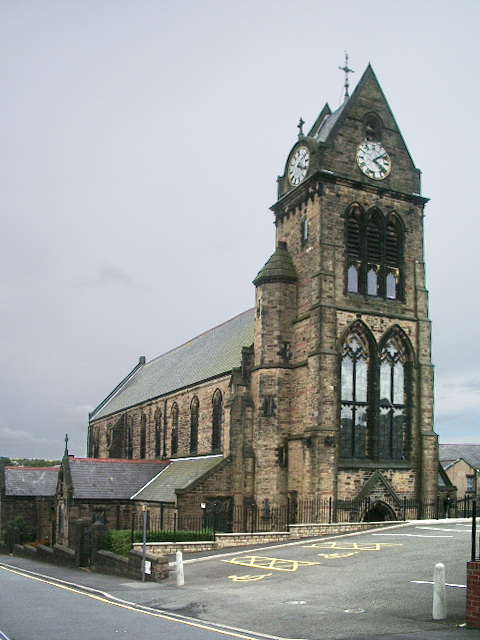 St Cuthbert's Church, Darwen, near to Darwen, Blackburn With Darwen, Great Britain.